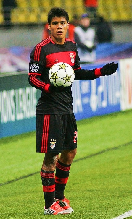 L. Melgarejo